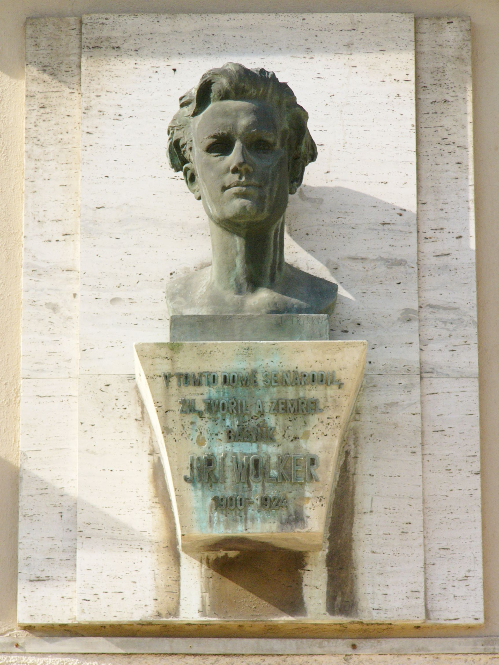 Bust of Czech poet Jiří Wolker by Jan Tříska at house of his birthplace in Prostějov